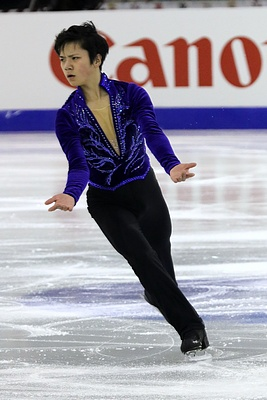 Shoma Uno during his short program at the 2014-2015 Junior Grand Prix Final.